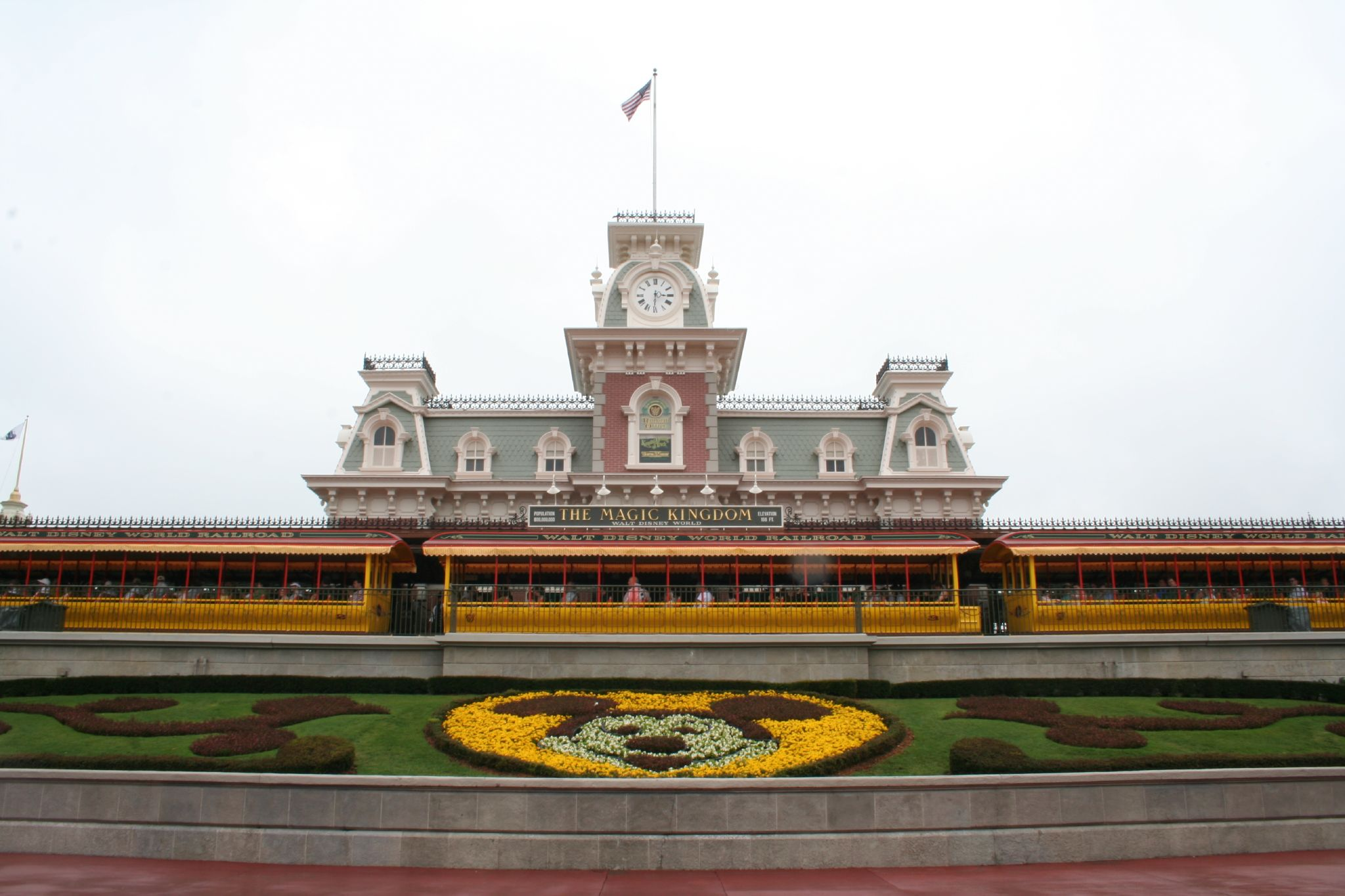 Roger E.Broggie's yellow coaches waiting at Main Street USA station.